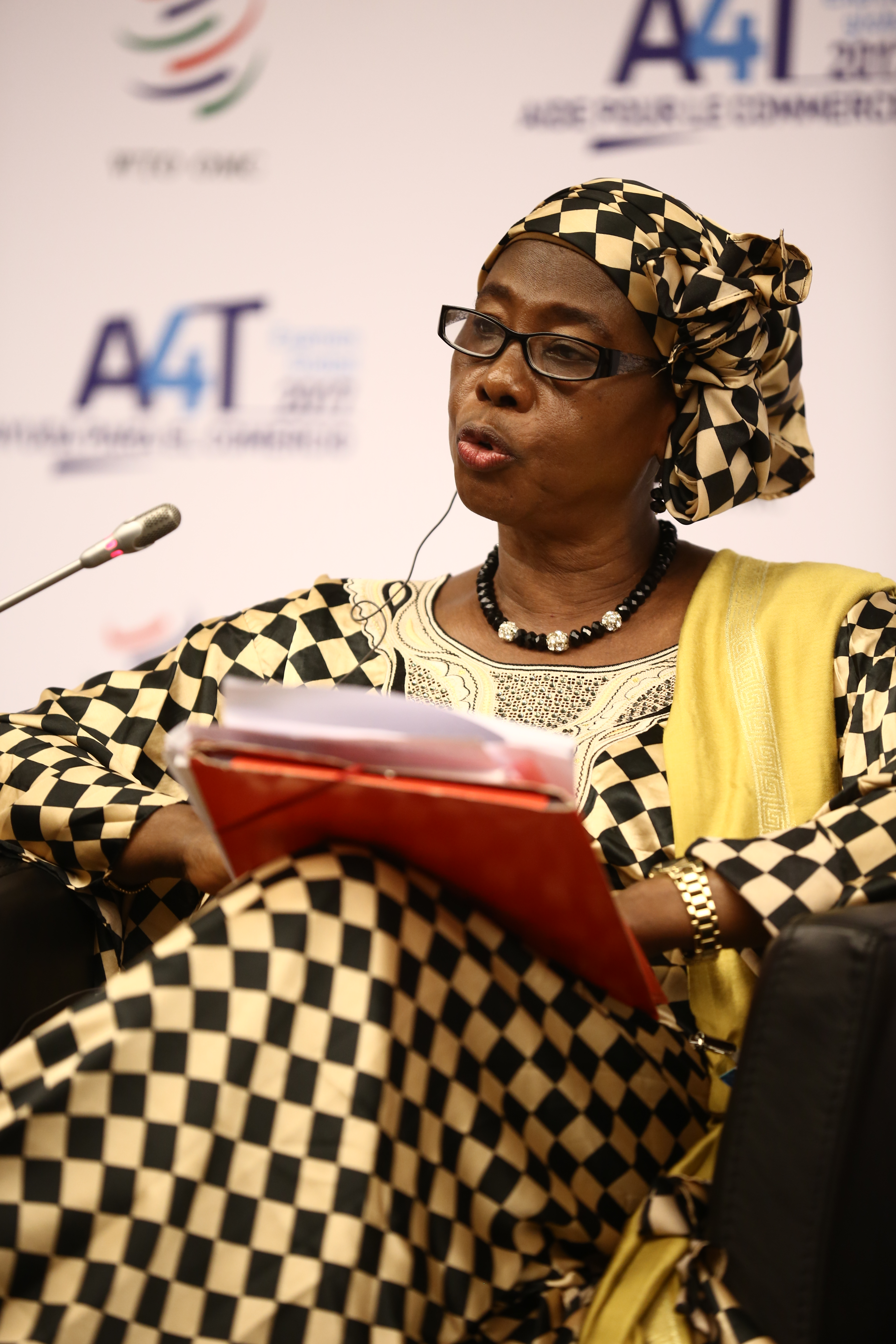 Photos from the WTO Aid for Trade Global Review 2017 photo gallery may be reproduced provided attribution is given to the WTO and the WTO is informed. Photos: © WTO/Jay Louvion